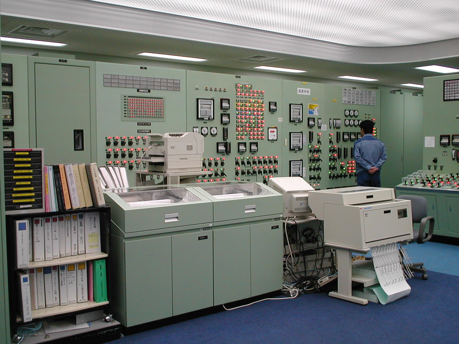 One of the photos taken at the Fukushima I Nuclear Power Plant tour sponsored by the Tokyo Electric Power Company on June 23, 1999.